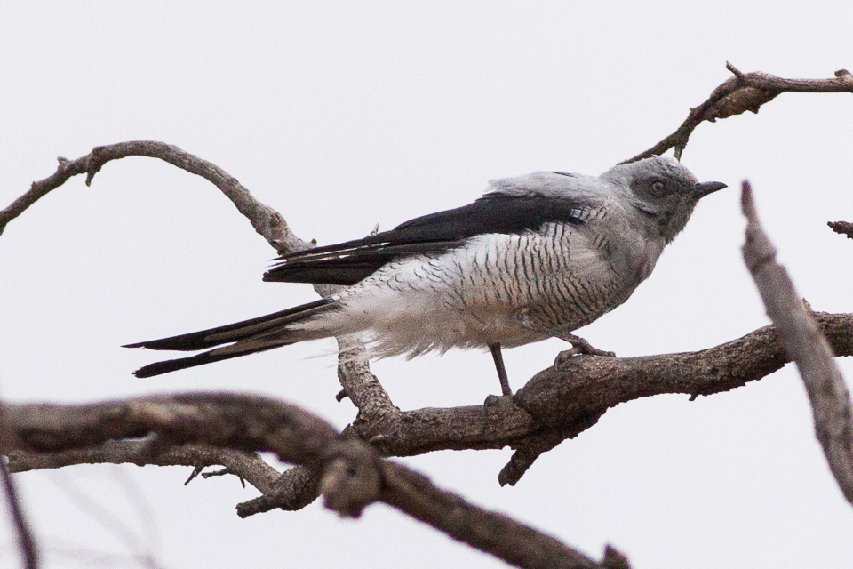 Ground Cuckoo-shrike (Coracina maxima)